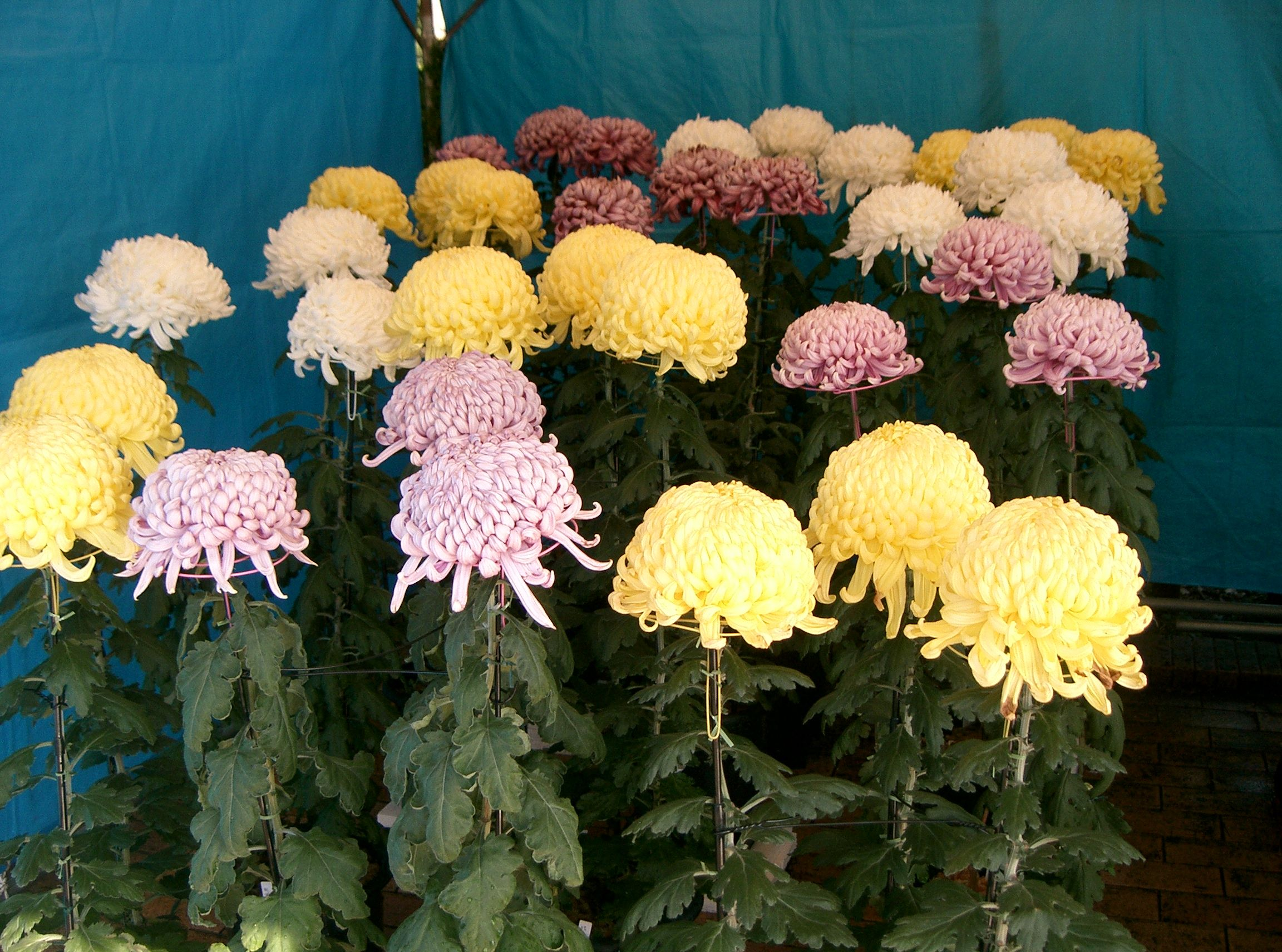 Chrysanthemum morifolium cvs.